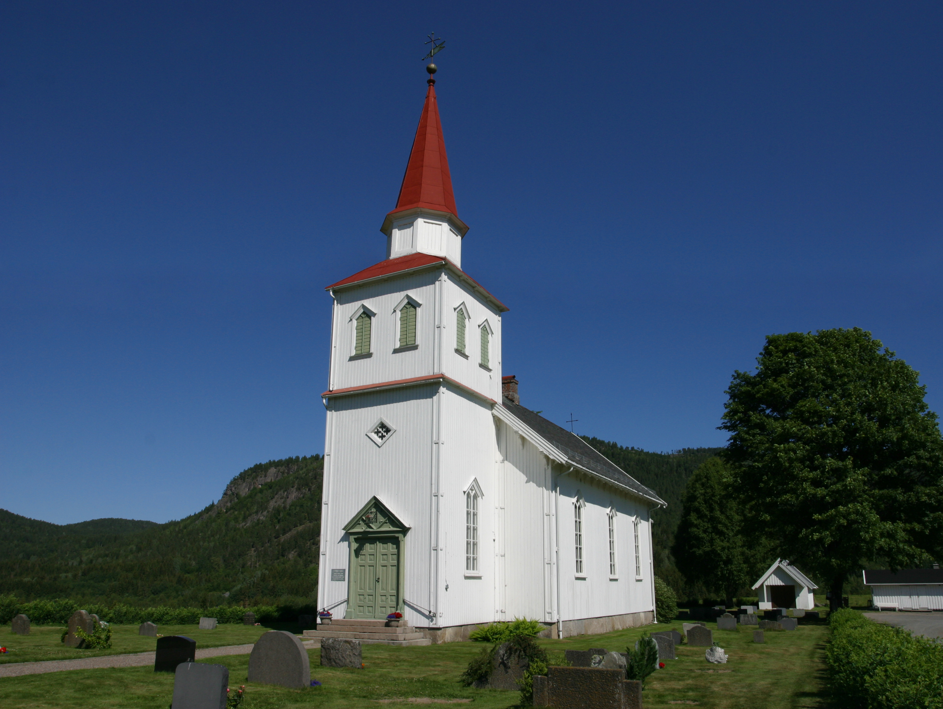 Picture of Komnes church (Buskerud - Norway)